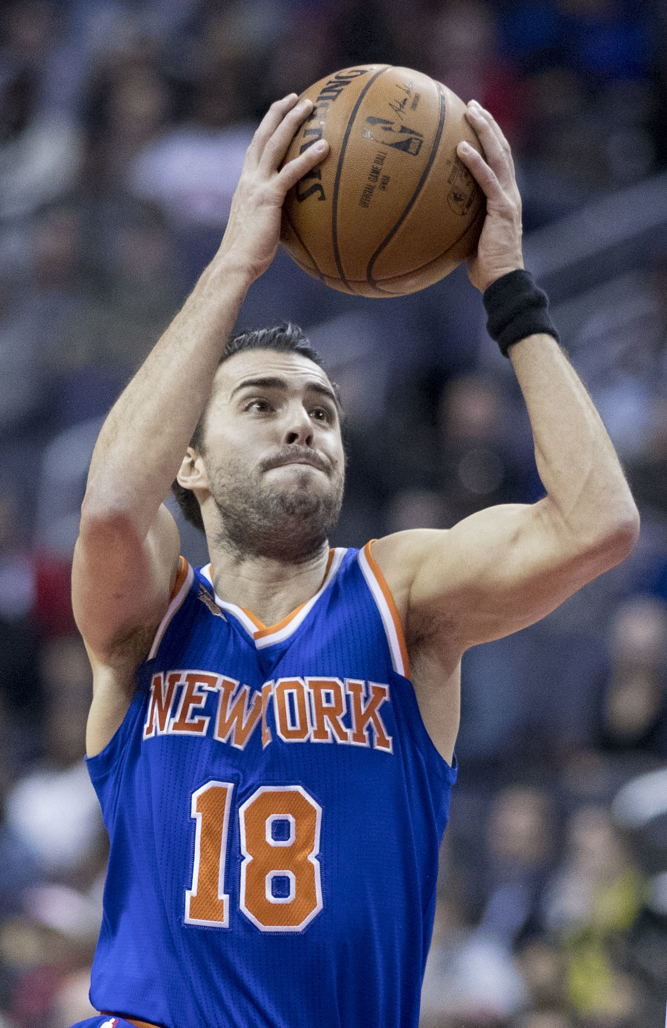 Knicks at Wizards 1/31/17